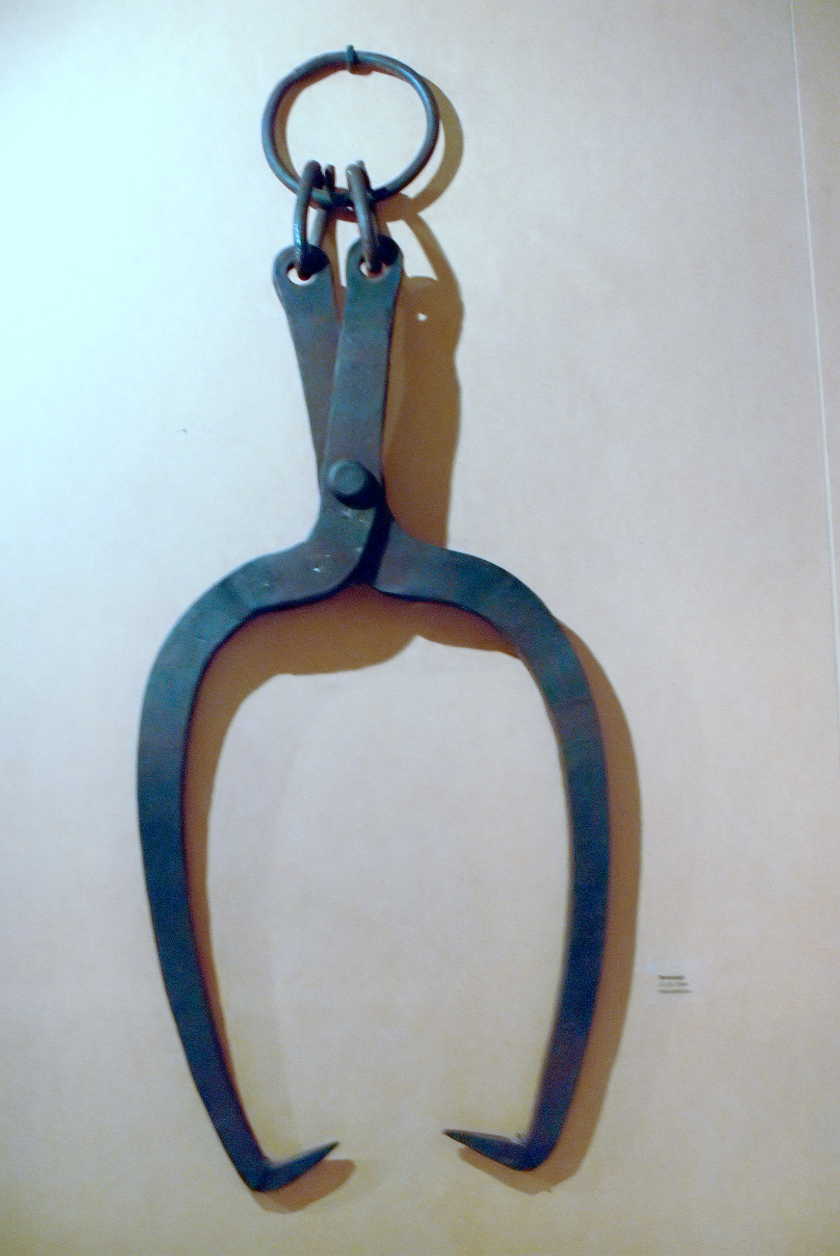 Oberhausmuseum ( Passau ). Stone lifting tool ( 14th century ).